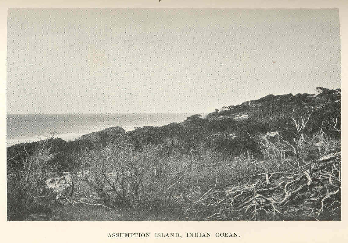 Assumption Island, Indian Ocean Subject: Islands, Assumption Island Geographic Subject: Assumption Island Tag: Coasts